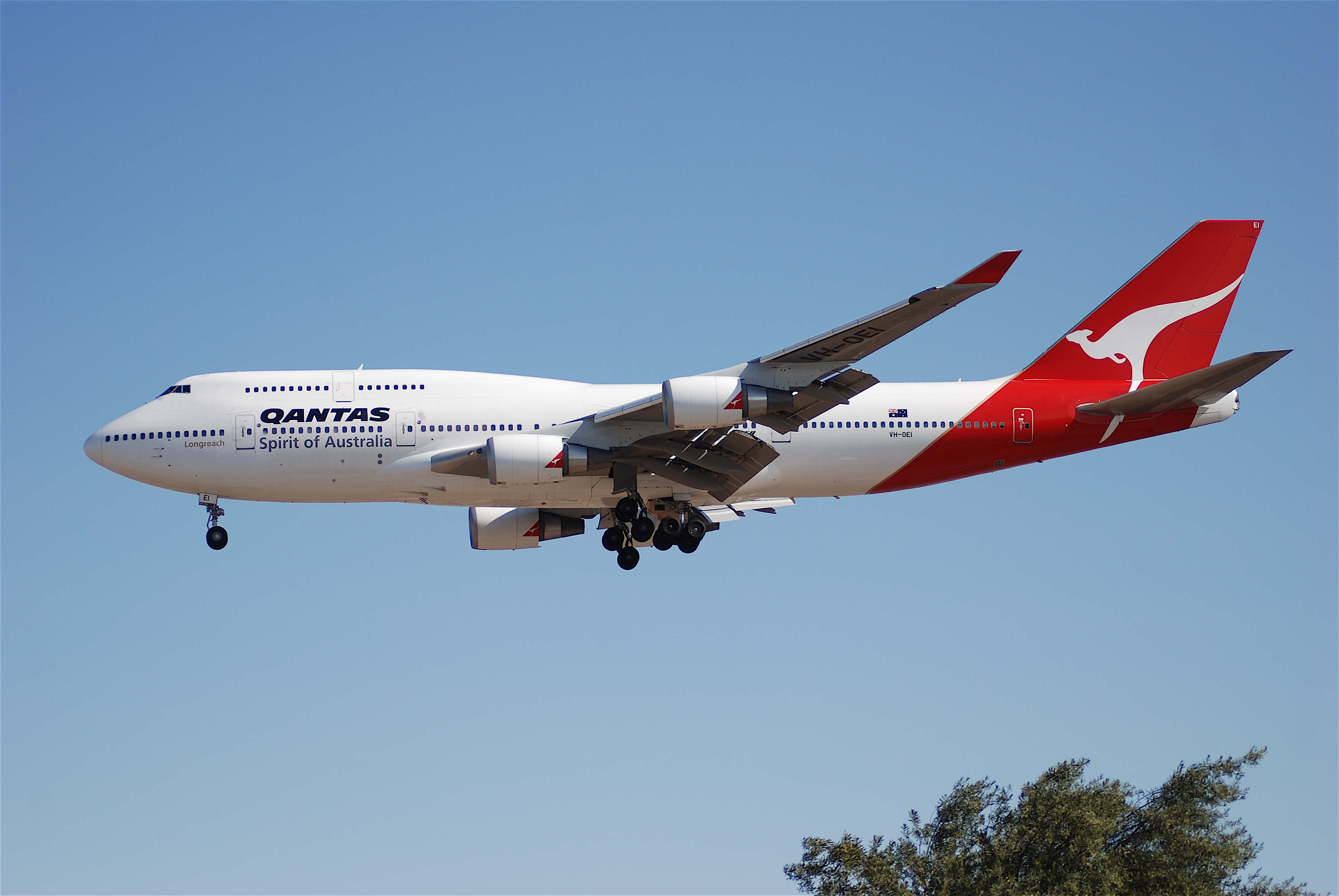 Qantas Boeing 747-400ER; VH-OEI@LAX;18.04.2007/463fi